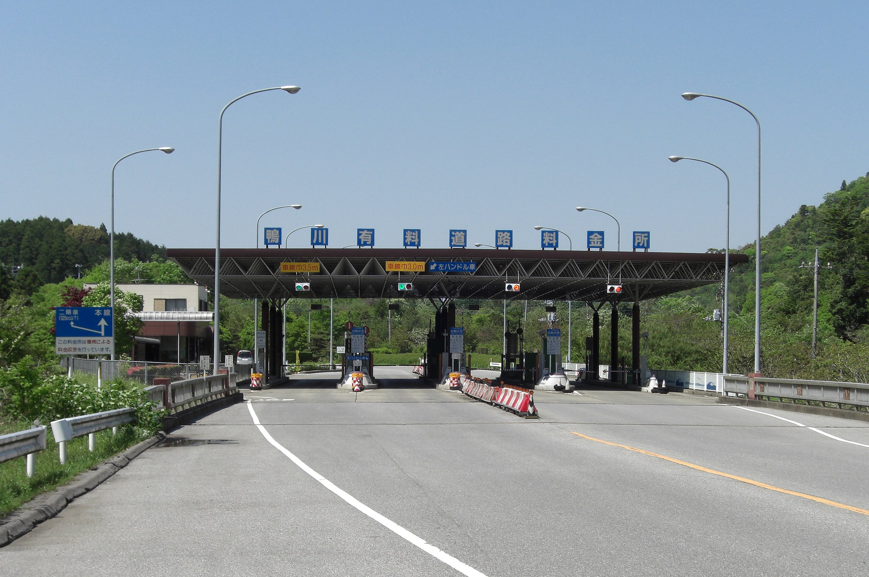 kamogawa toll road